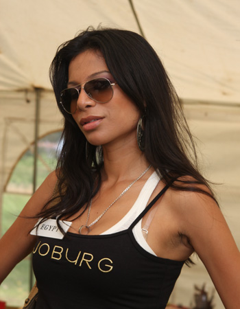 Miss Egypt 2008 Sanaa Ismail Hamed during Miss World 08 in JOhannesburg